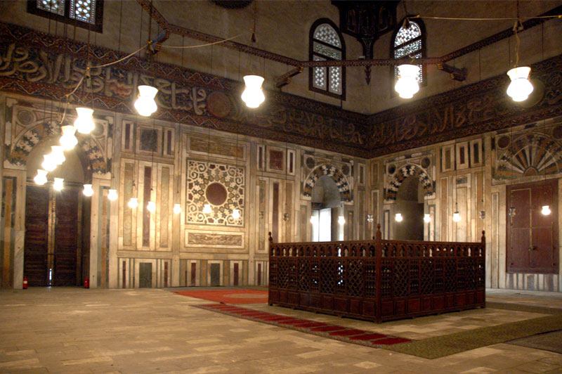 Mosque-Madrassa of Sultan Hassan. Cairo. Egypt